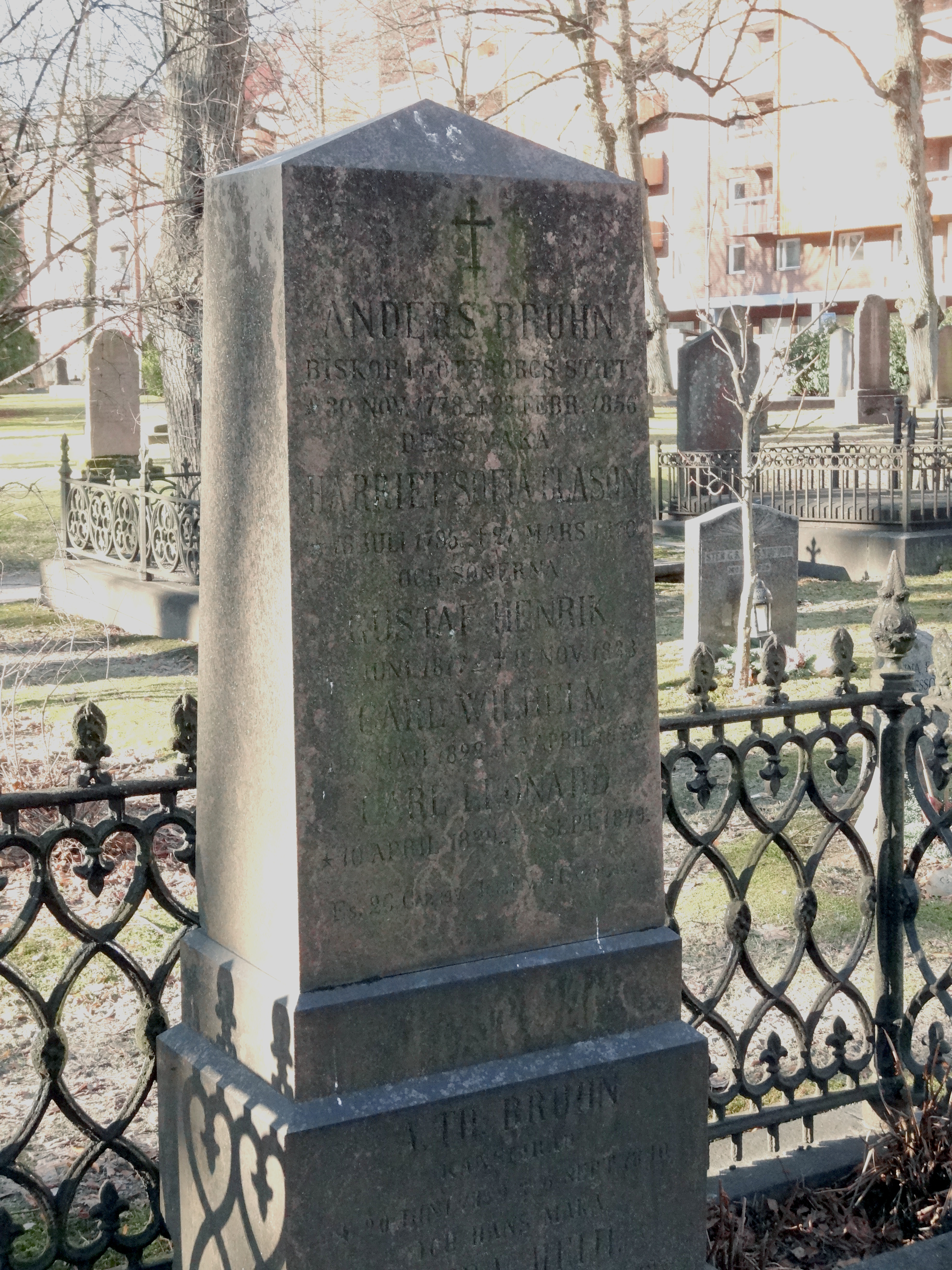 Gravestone of Swedish bishop Anders Bruhn (1778-1856) at the Stampen cemetery in Gothenburg, Sweden.